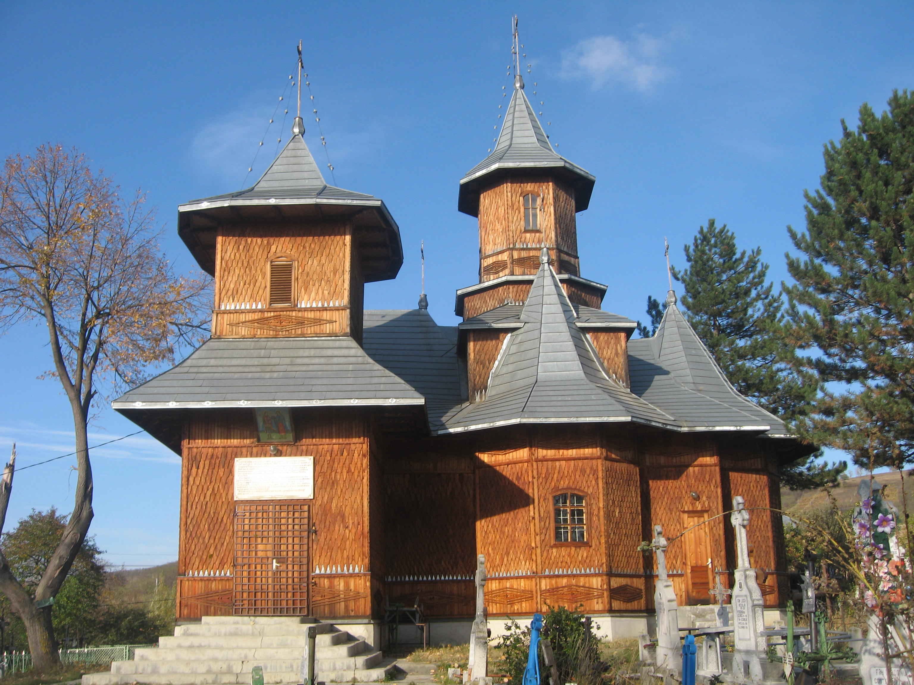 Biserica de lemn din Armăşeni